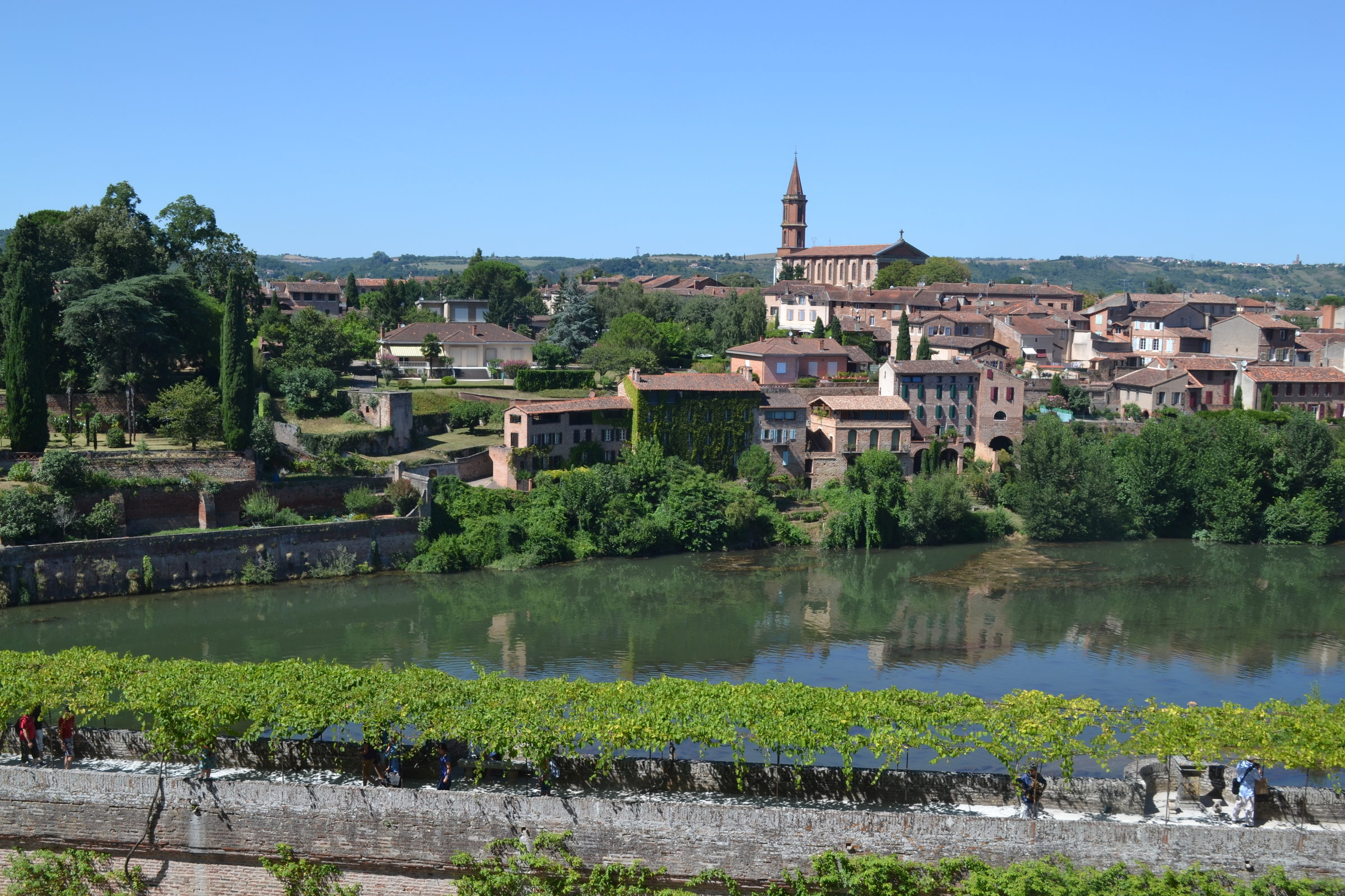 View from Berbie palace gardens in Albi.